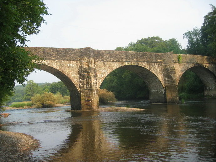 Pont Rwnws Bridge, also known as the Llandeilo Yr Ynys Bridge, Wales